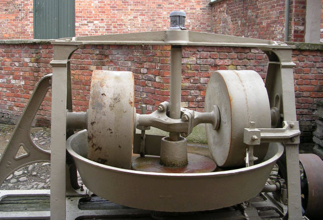 Erddig Mortar making machine